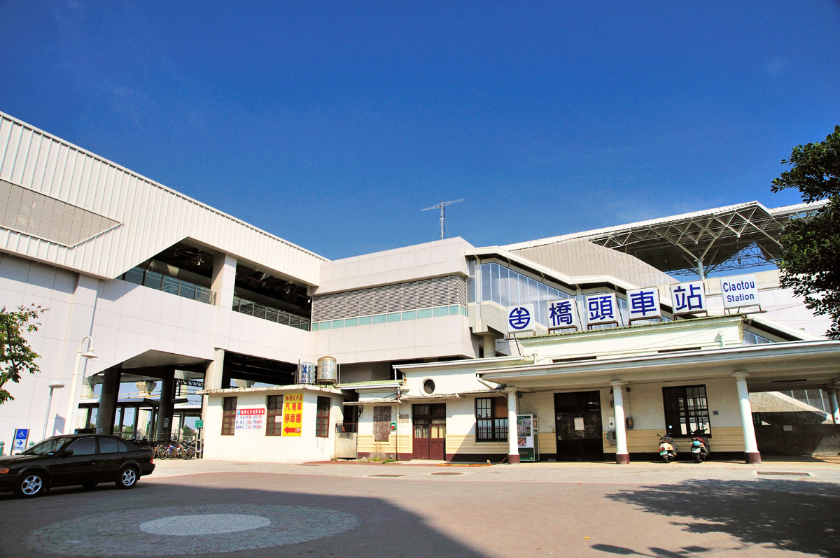 CiaoTou Station is a local train station of Taiwan's Western main rail line. It locates within the boundary of CiaoTou Township, KaoHsiung County. This photo shows the abandoned station building originally operated by TRA. Current station functions was transferred to the newly built station building co-sharing with KRTCO.